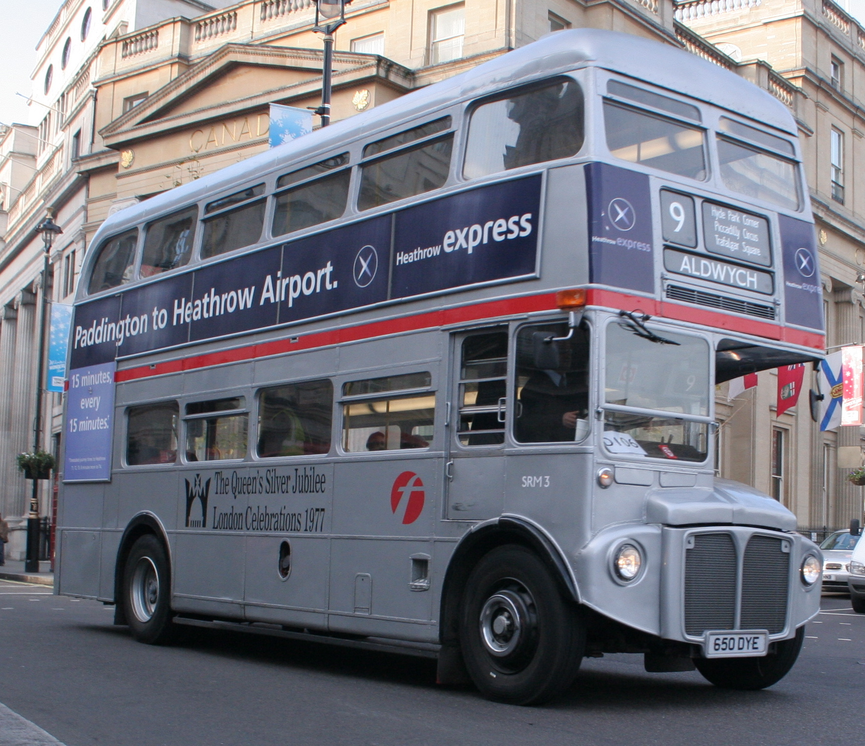 First London Routemaster bus RM1650 / SRM3 (reg. 650 DYE) operating London Buses heritage route 9, pictured heading east along Cockspur Street in Trafalgar Square, en-route to Aldwych. The Canadian High Commission building Canada House is in the background. The heritage routes began in November 2005, and this picture was taken on 9 December 2005, the last day of normal operation of Routemasters in London, with the changeover of the last ordinary route using them, the 159, to modern buses.